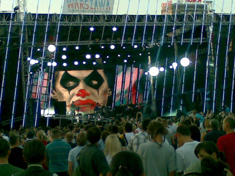 Orange Festival, Warsaw 2008